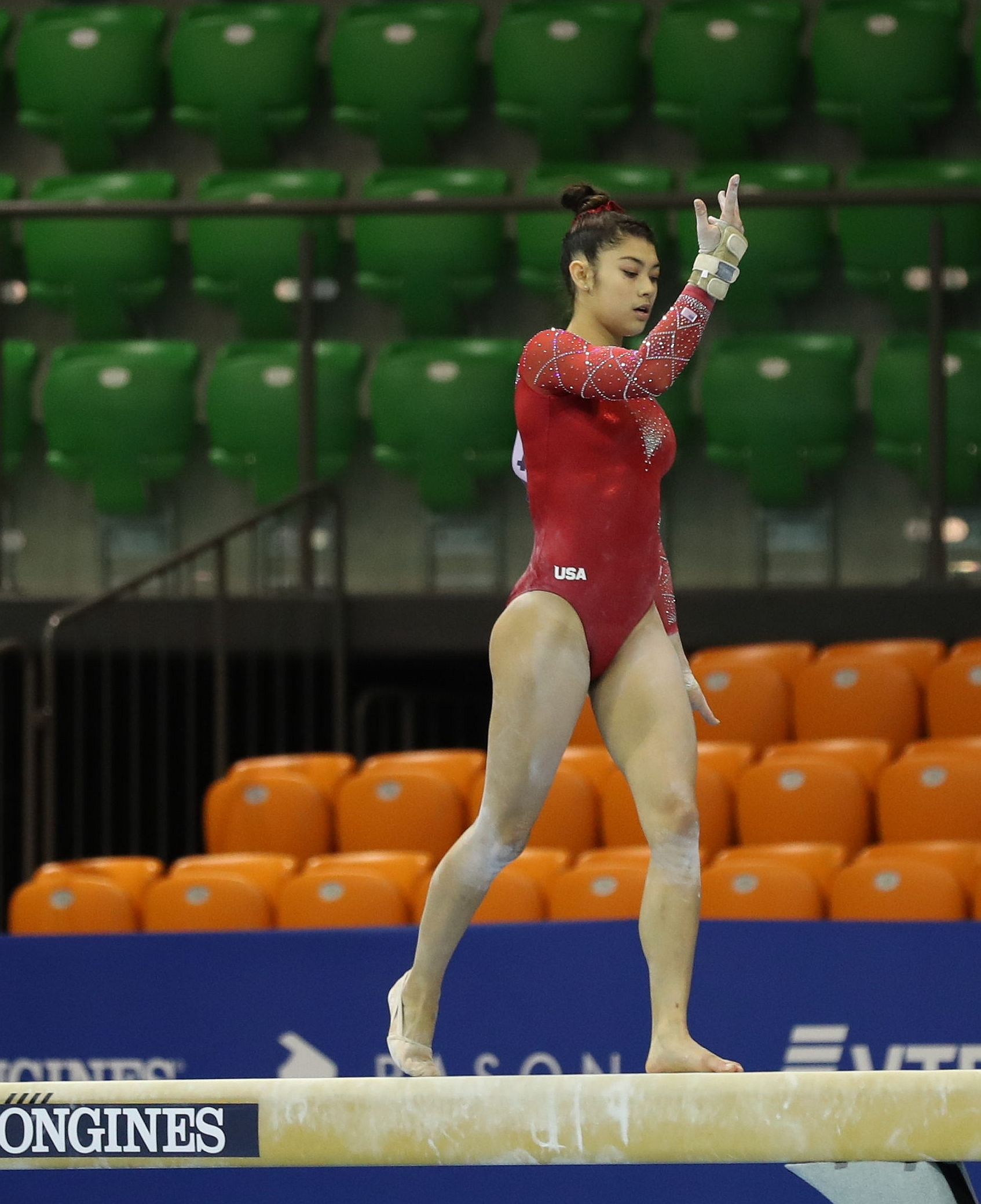 Balance beam exercise of subdivision 1 during the girls' all-around competition at the 1st FIG Artistic Gymnastics Junior World Championships on 28 June 2019 in Győr, Hungary. Depicted: Kayla DiCello.